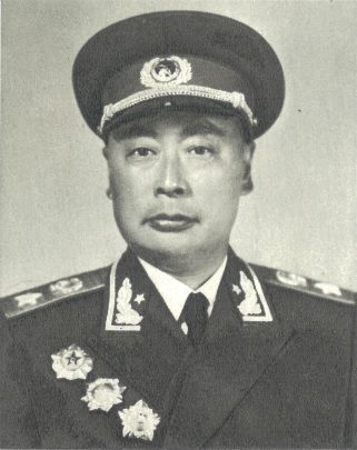 Chen Yi or Chen I (simplified